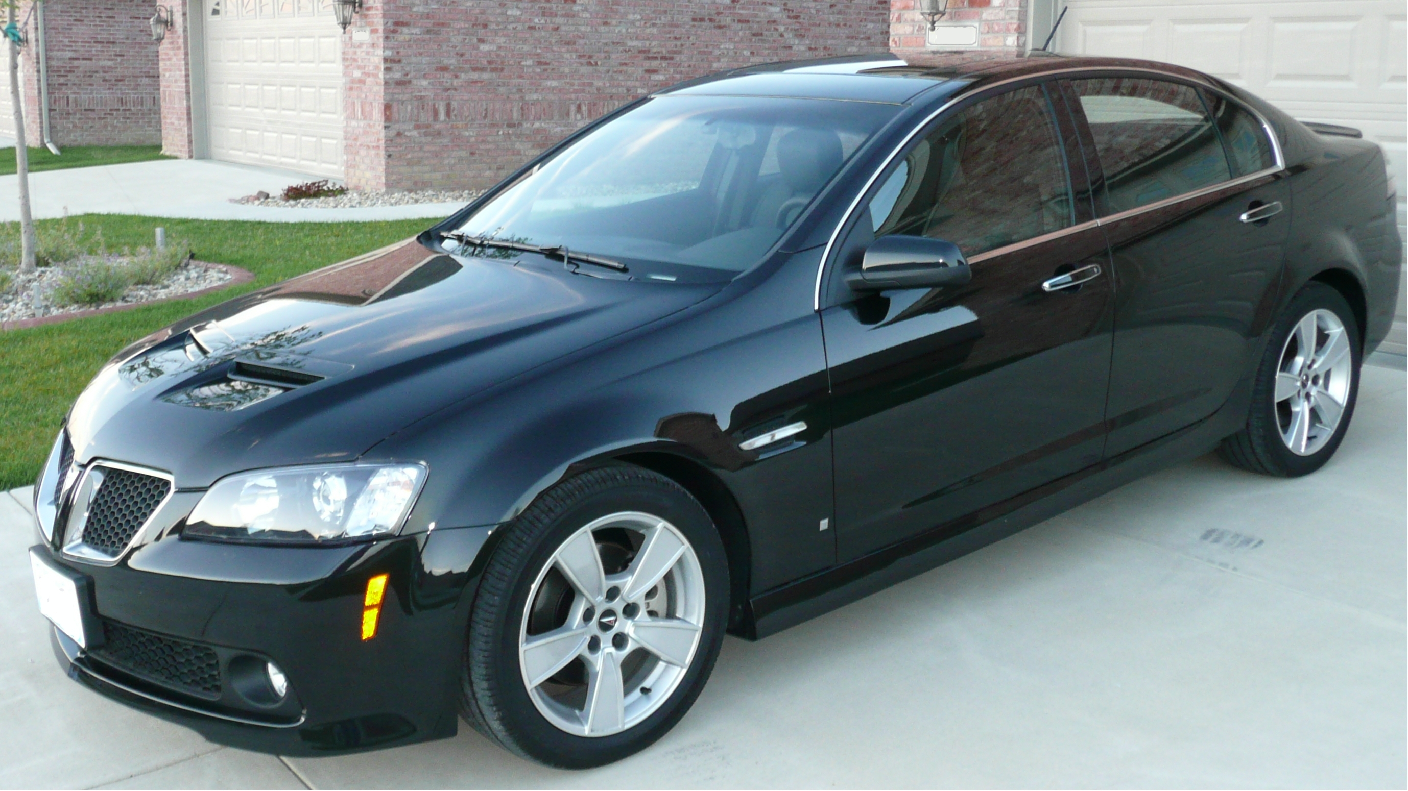 2009 Pontiac G8 GT sedan in Panther Black Metallic, photographed in North America.